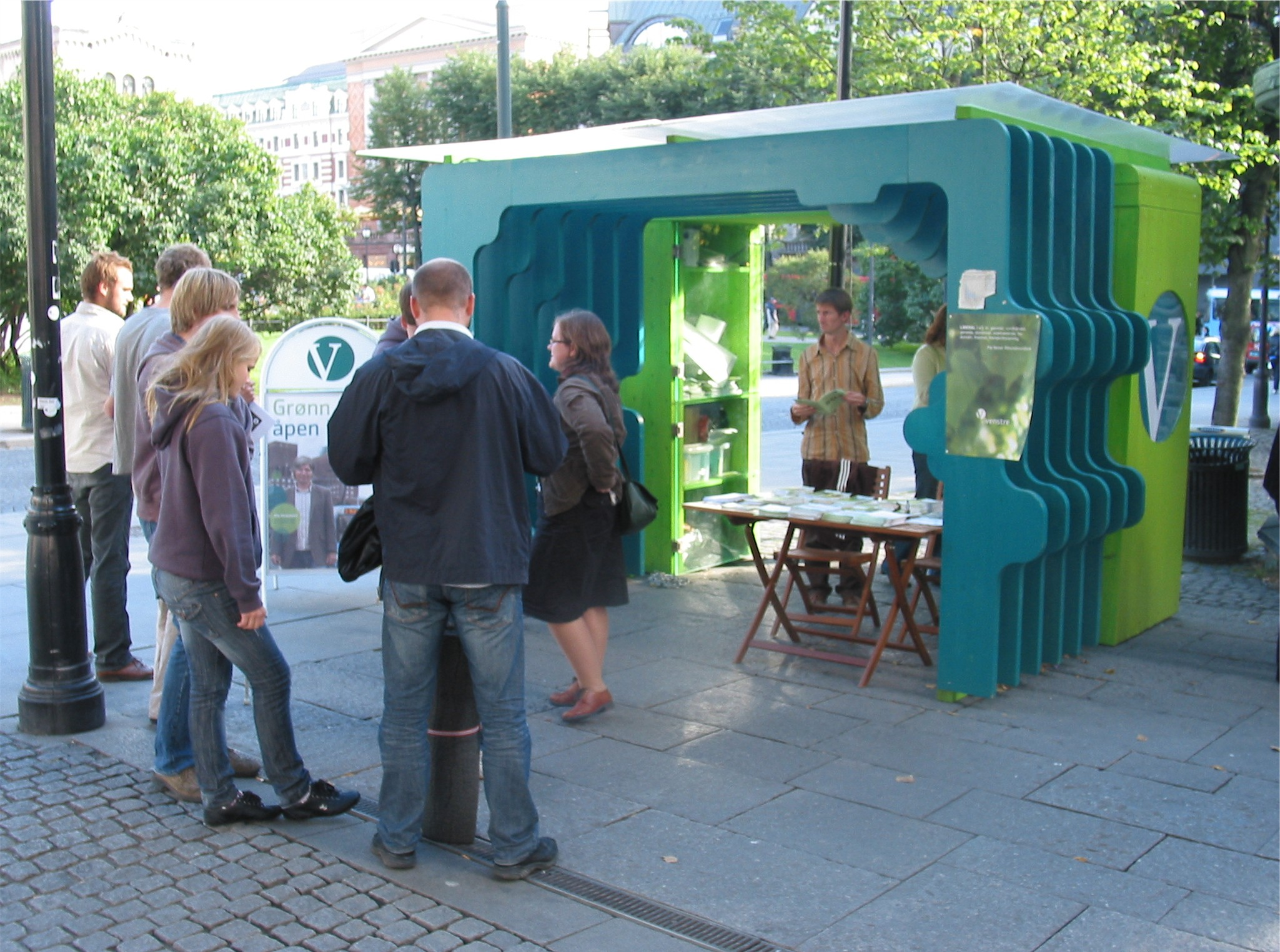 Booth of the Liberal Party of Norway (Venstre) during the campaign before the Norwegian local elections, 2007. Karl Johan's street, Oslo, July 2007.